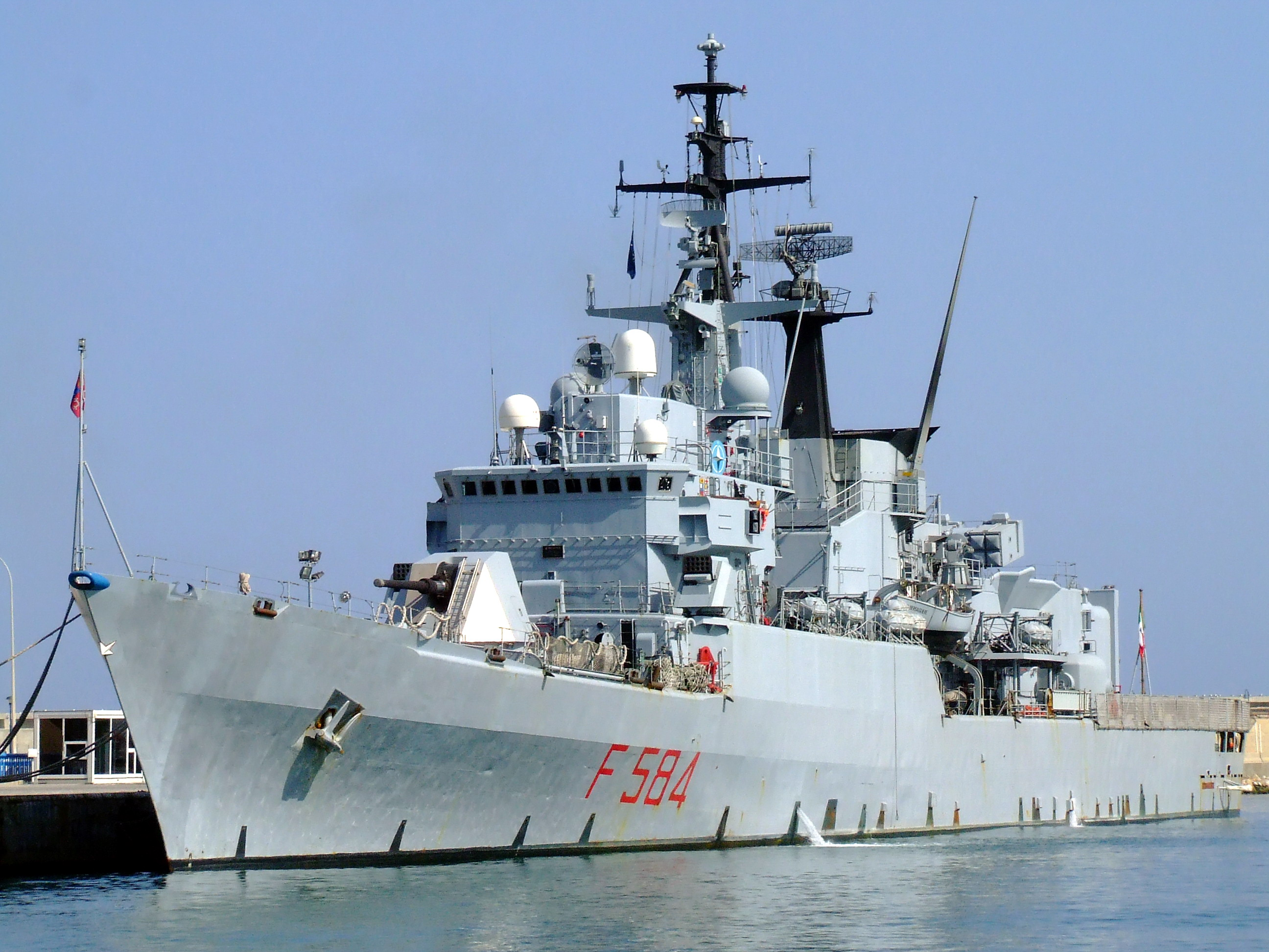 Italian frigate Bersagliere